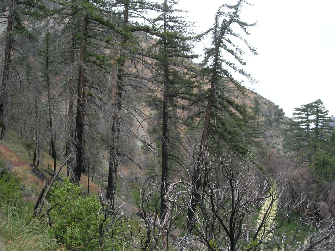 Pseudotsuga macrocarpa, showing post-wildfire branch regeneration. Middle Fork of Lytle Creek, San Bernadino National Forest, California, 34°15'09"N 117°33'08"W, 1350m altitude